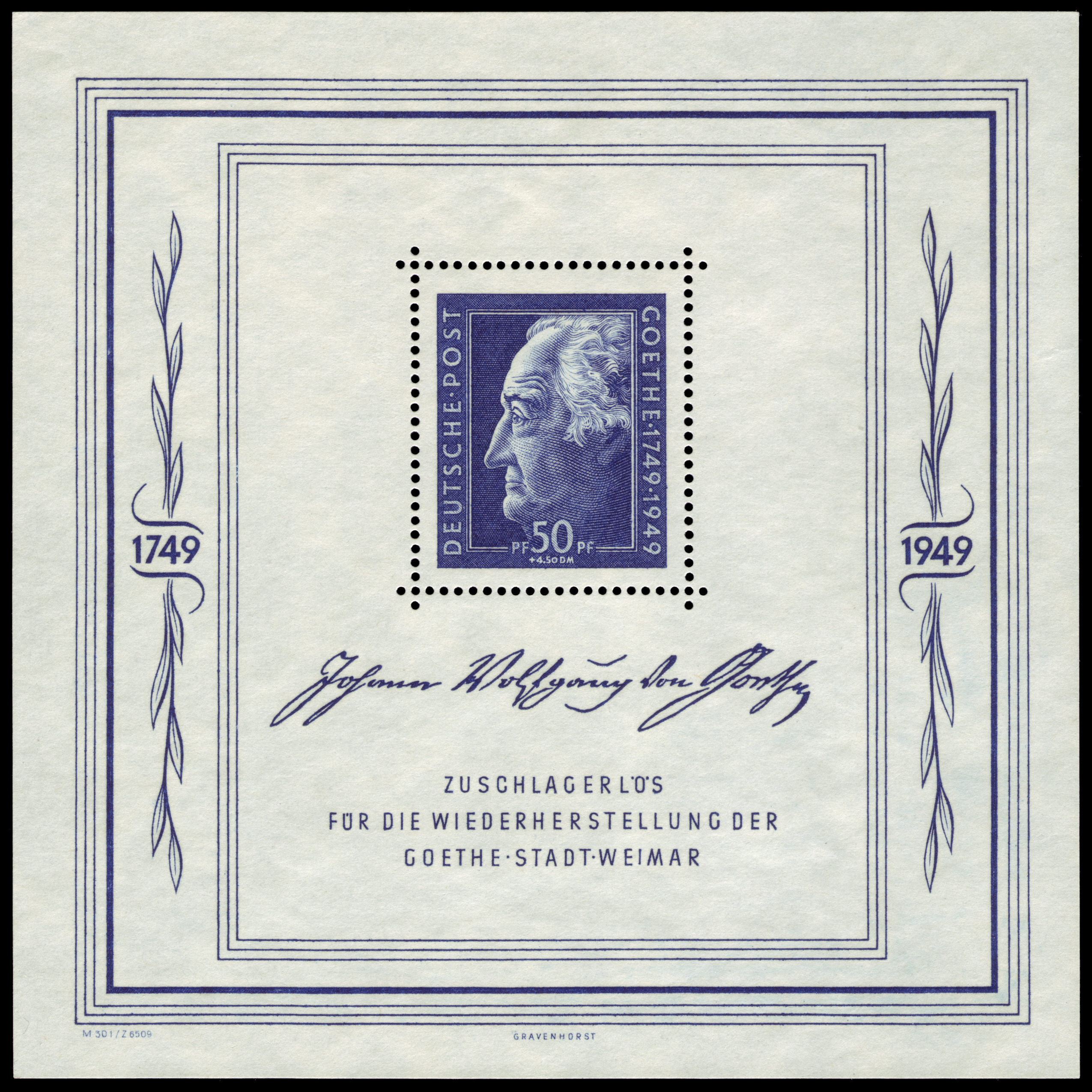 miniature sheet of the Soviet occupation zone, Goethe festival week in Weimar Ausgabepreis: 5 DM First Day of Issue / Erstausgabetag: 22. August 1949 Michel-Katalog-Nr: Bl. 6 (Alliierte Besatzung (Thüringen))